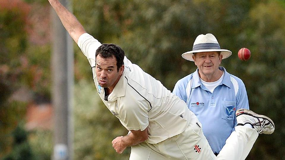 Current Captain, David Mckay bowling at A.G Gillon Oval in 2015.